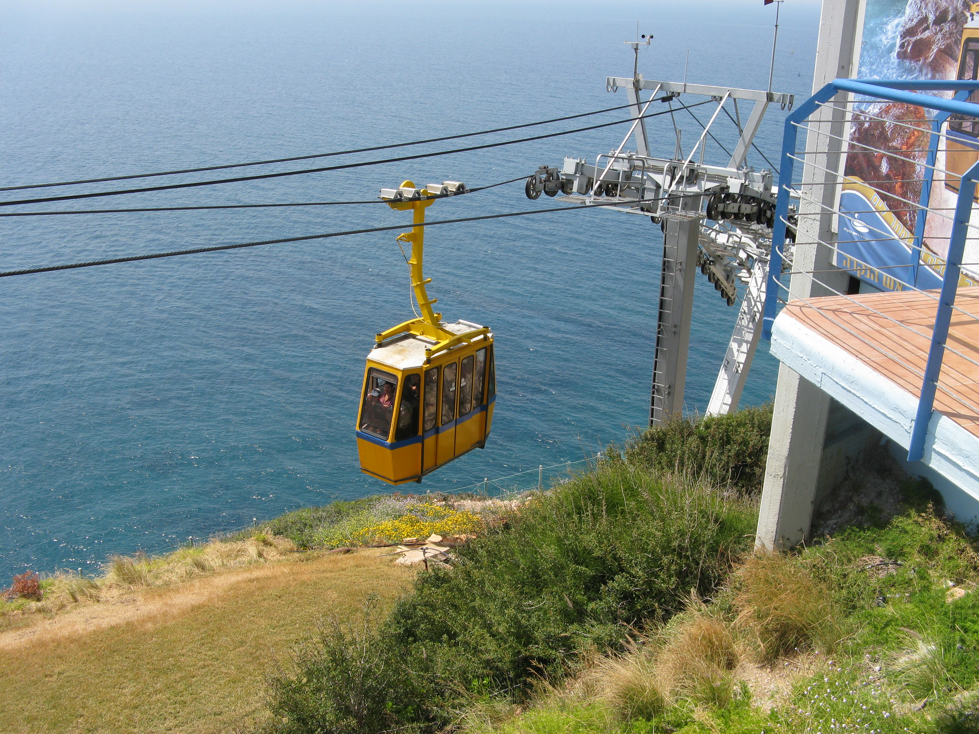 Cable Car of Rosh Hanikra